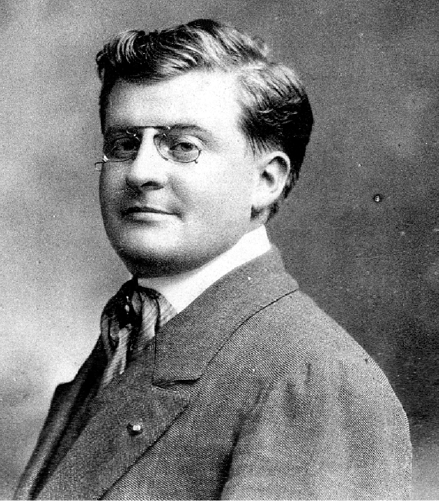 French writer Hubert-Fillay (1879-1945) by Paul Grob ("Photographie Maurice", Blois). Circa 1914.